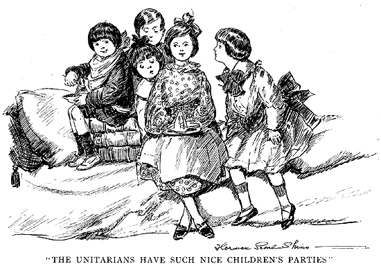 "The Unitarians have such nice children's parties", a drawing published in The Century Illustrated Monthly Magazine, 1904.